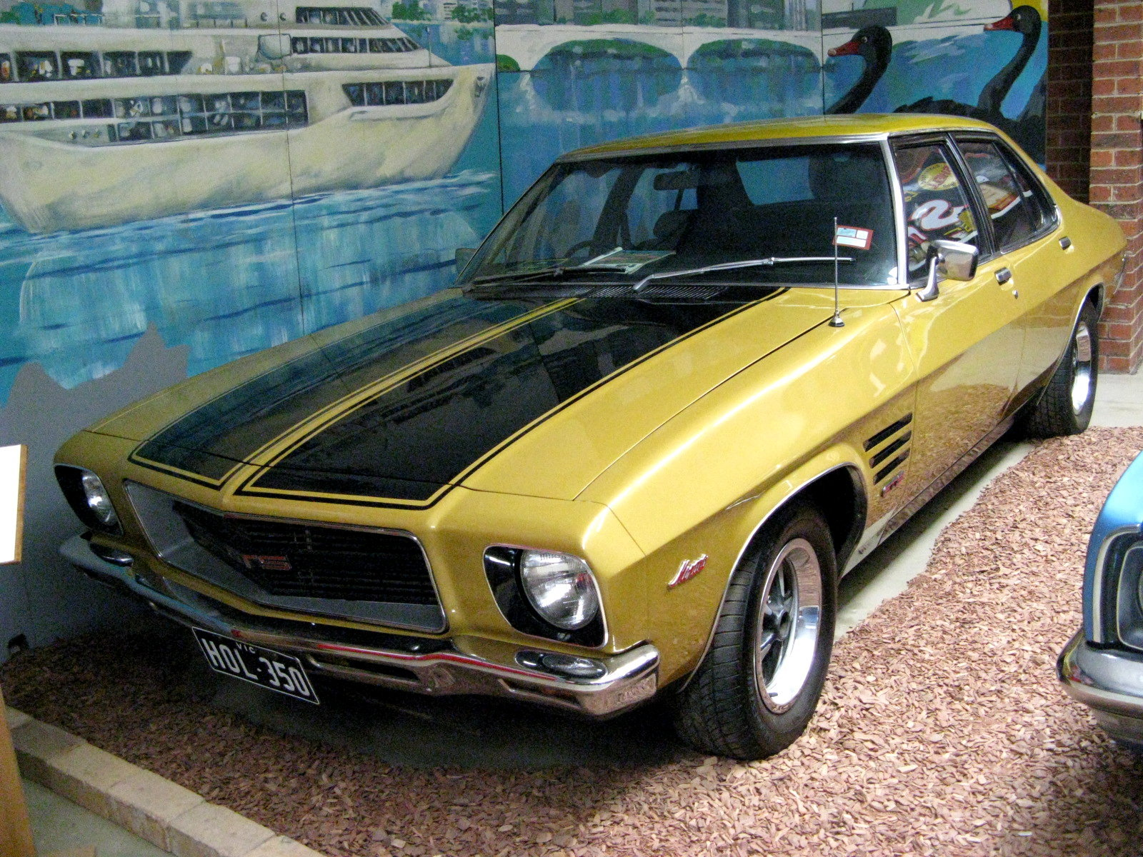 1973 Holden HQ Monaro GTS-350